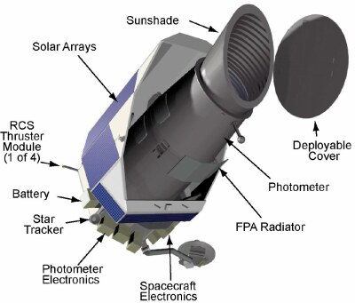 Labeled illustration of the Kepler spacecraft